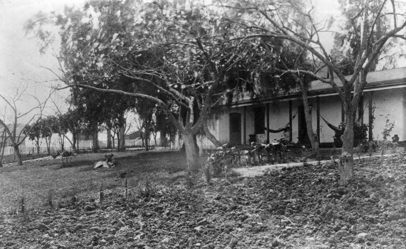 View of the Rancho Aguaje de la Centinela adobe house located on 7634 Midfield Avenue in Inglewood. Historical Notes: Known as the "Centinela Adobe", this ranch house is considered one of the best preserved smaller adobes in Los Angeles County. Built in 1834 by Don Ignacio Machado, it was the headquarters of Rancho Aguaje de la Centinela. The Centinela Adobe is considered the birthplace of Inglewood, the modern city which was formed upon the land grant. Today the Historical Society of the Centinela Valley, in cooperation with the Inglewood Recreation and Community Services Department, maintains and exhibits the Centinela Adobe Complex at 7643 Midfield which includes the Adobe, 1887 Daniel Freeman Land Office and the Centinela Valley Heritage and Research Center.